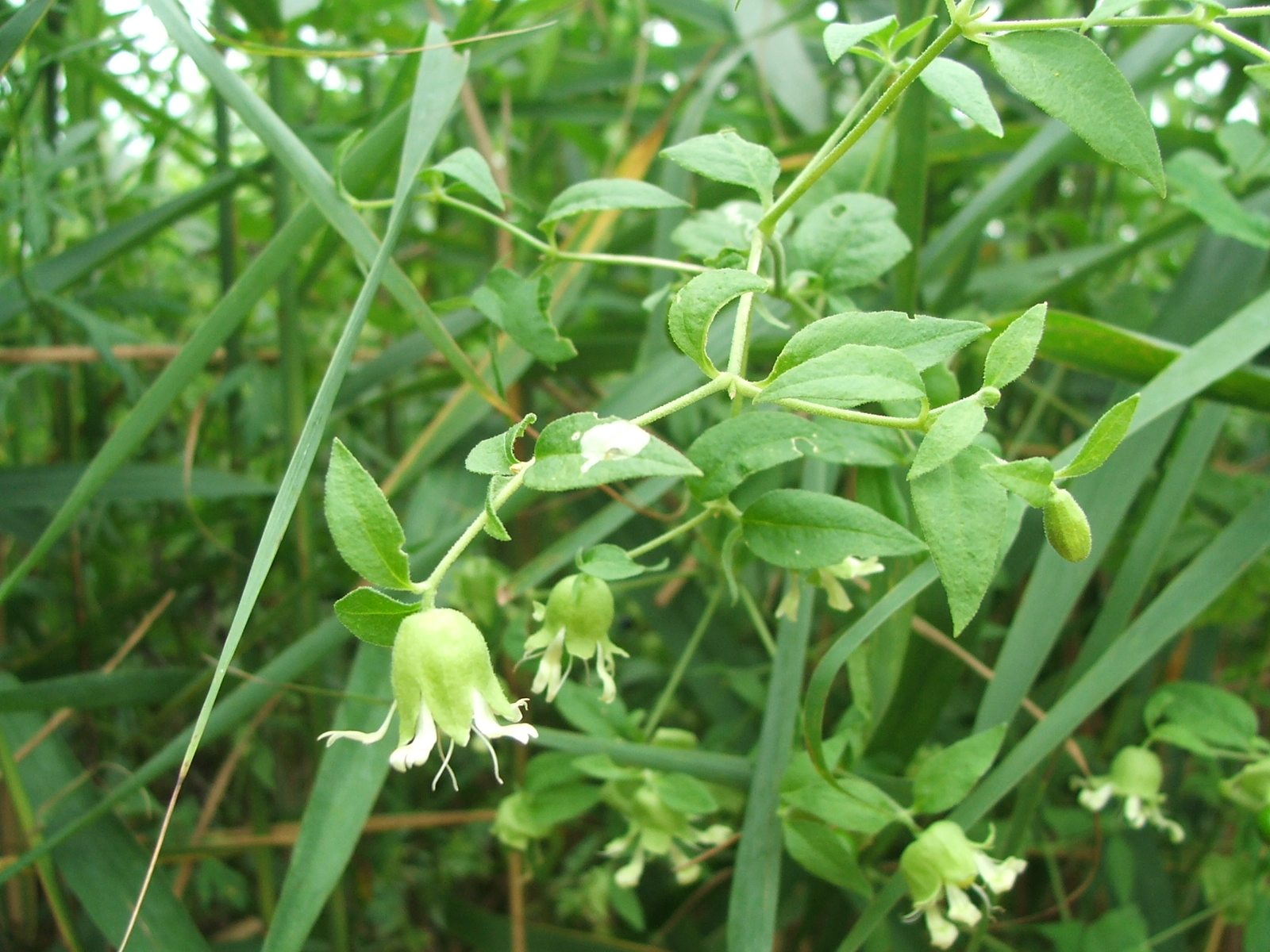 Cucubalus baccifer L.